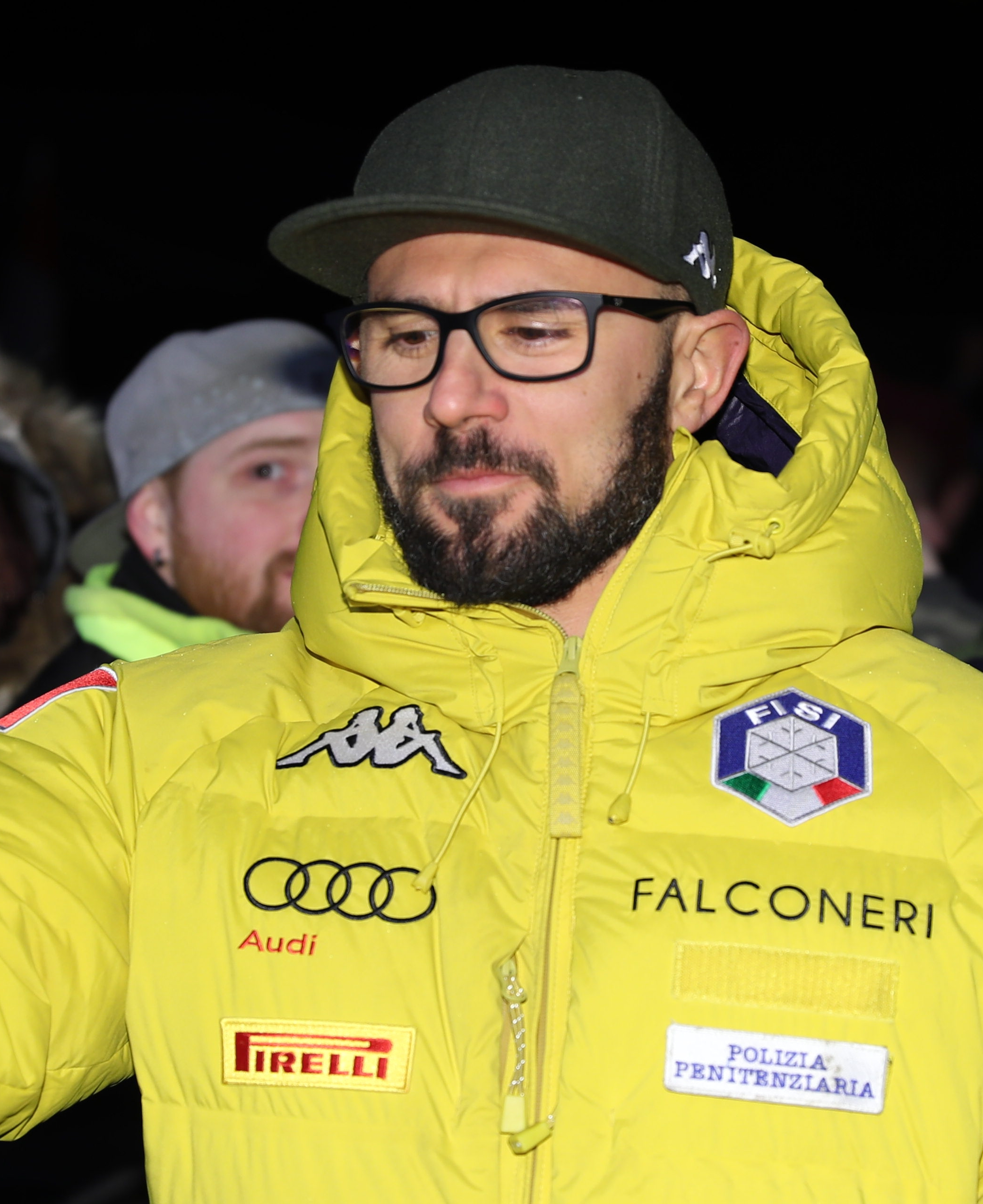 Opening Ceremony at the Bobsleigh and Skeleton World Championships 2020 in Altenberg